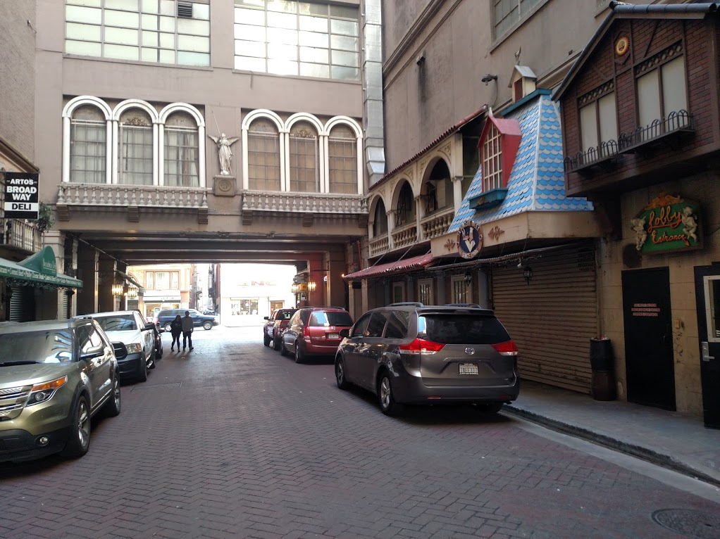 St Vincent Court in Downtown Los Angeles, north of 7th Street between Broadway and Hill Street. Decorations and brick paving were added to this alley in 1957 to make it look like a European plaza. Western side and entrance breezeway.